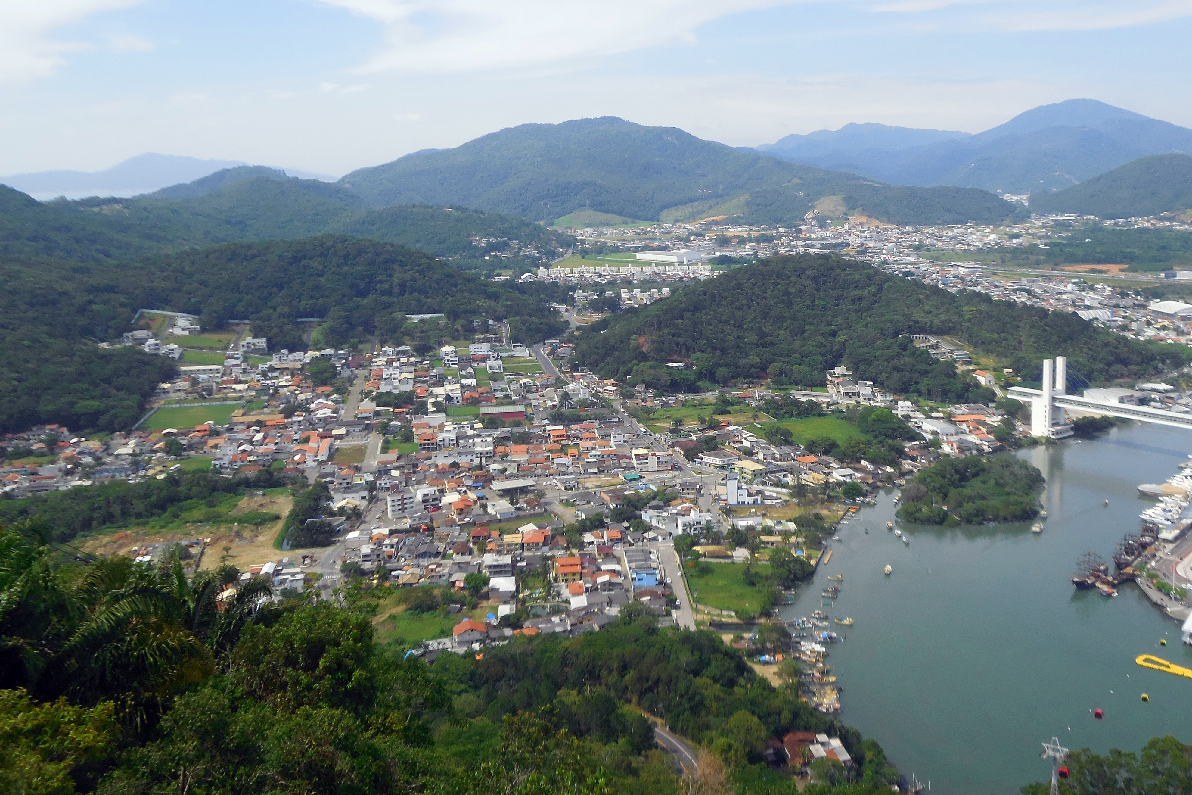 Partial view of the Barra neighborhood, in Balneário Camboriú, Santa Catarina, Brazil.